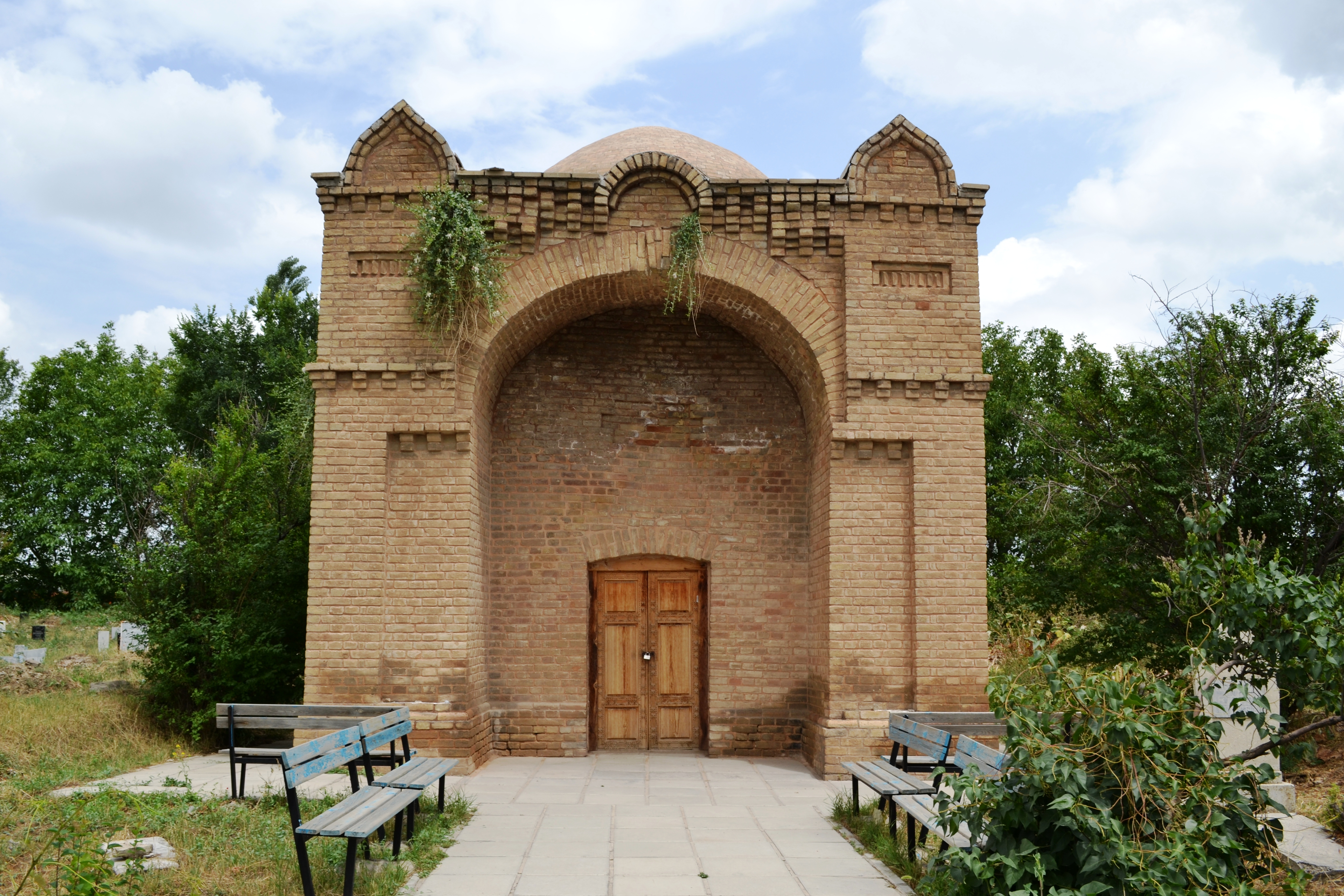 Mirali Baba